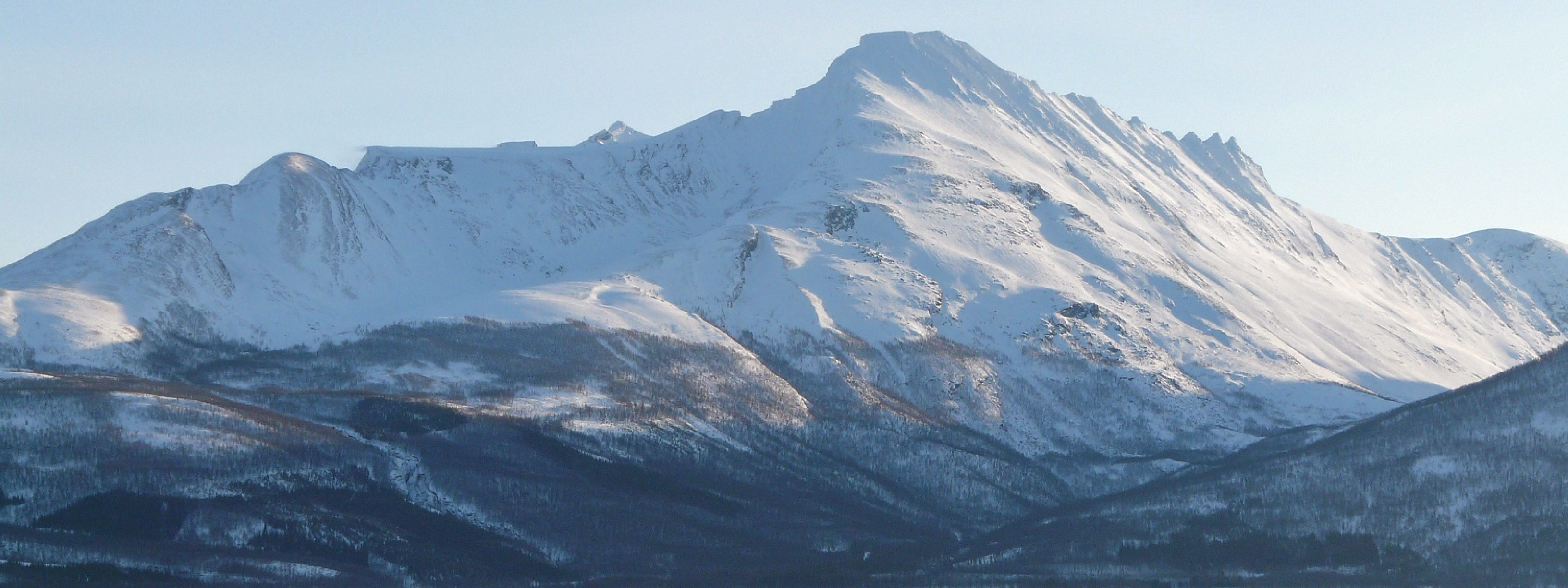 Rakeltinden (1,400 m) as seen from Storsteinnes in 2009 February.